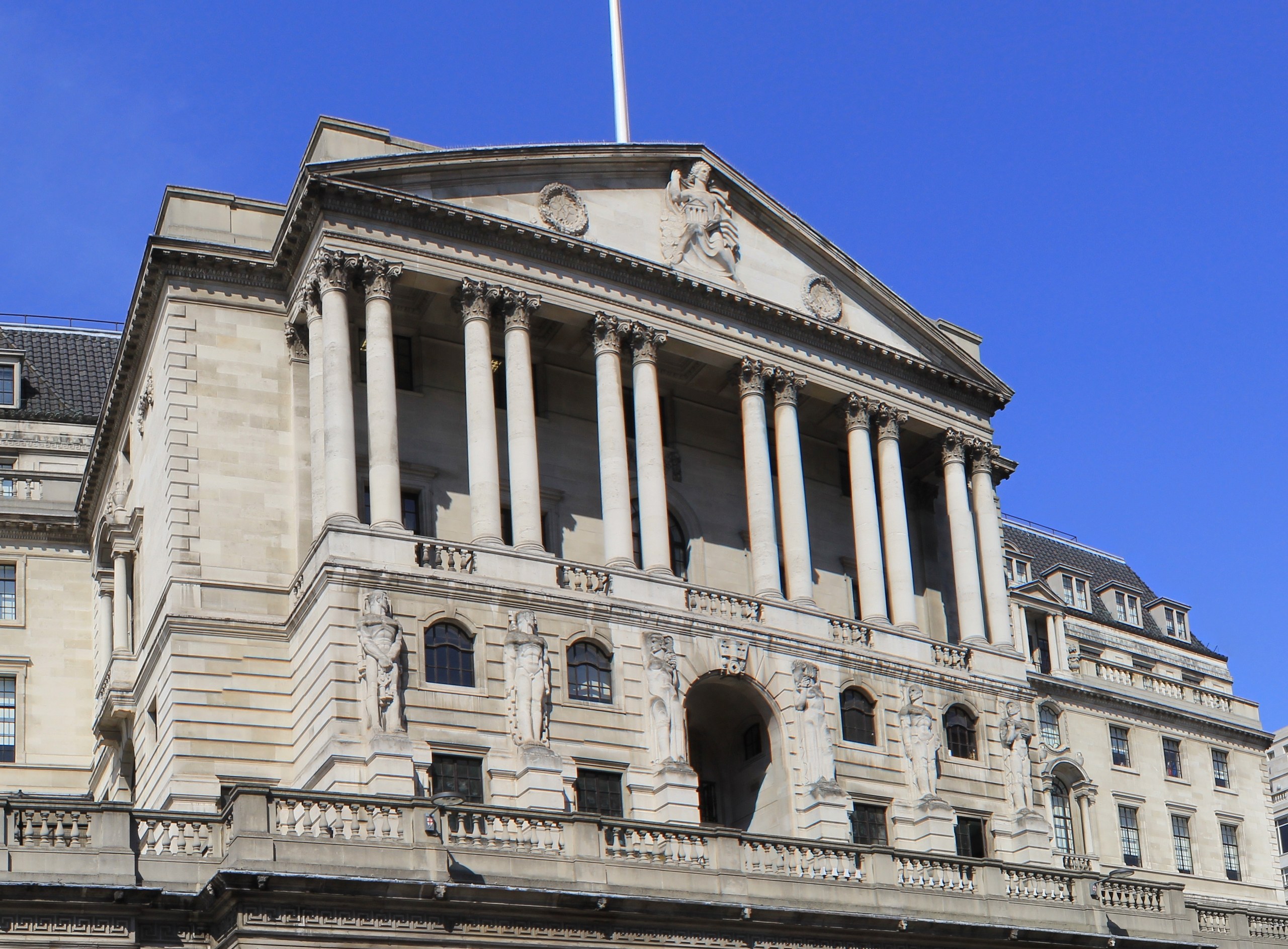 Bank of England